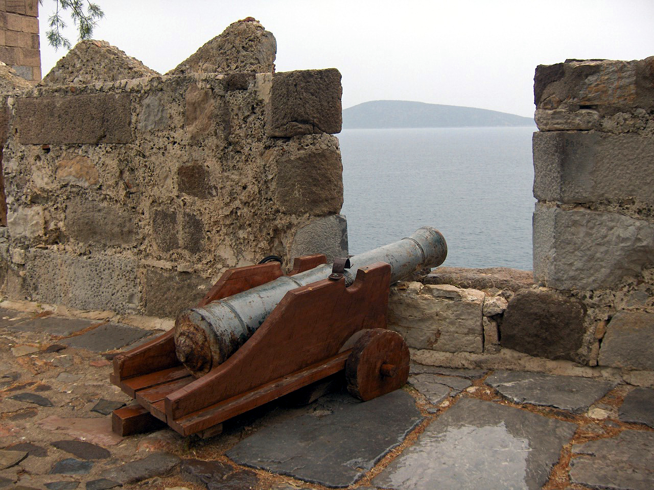 Muzzle-loading canon; St. Peter's castle; Bodrum, Turkey